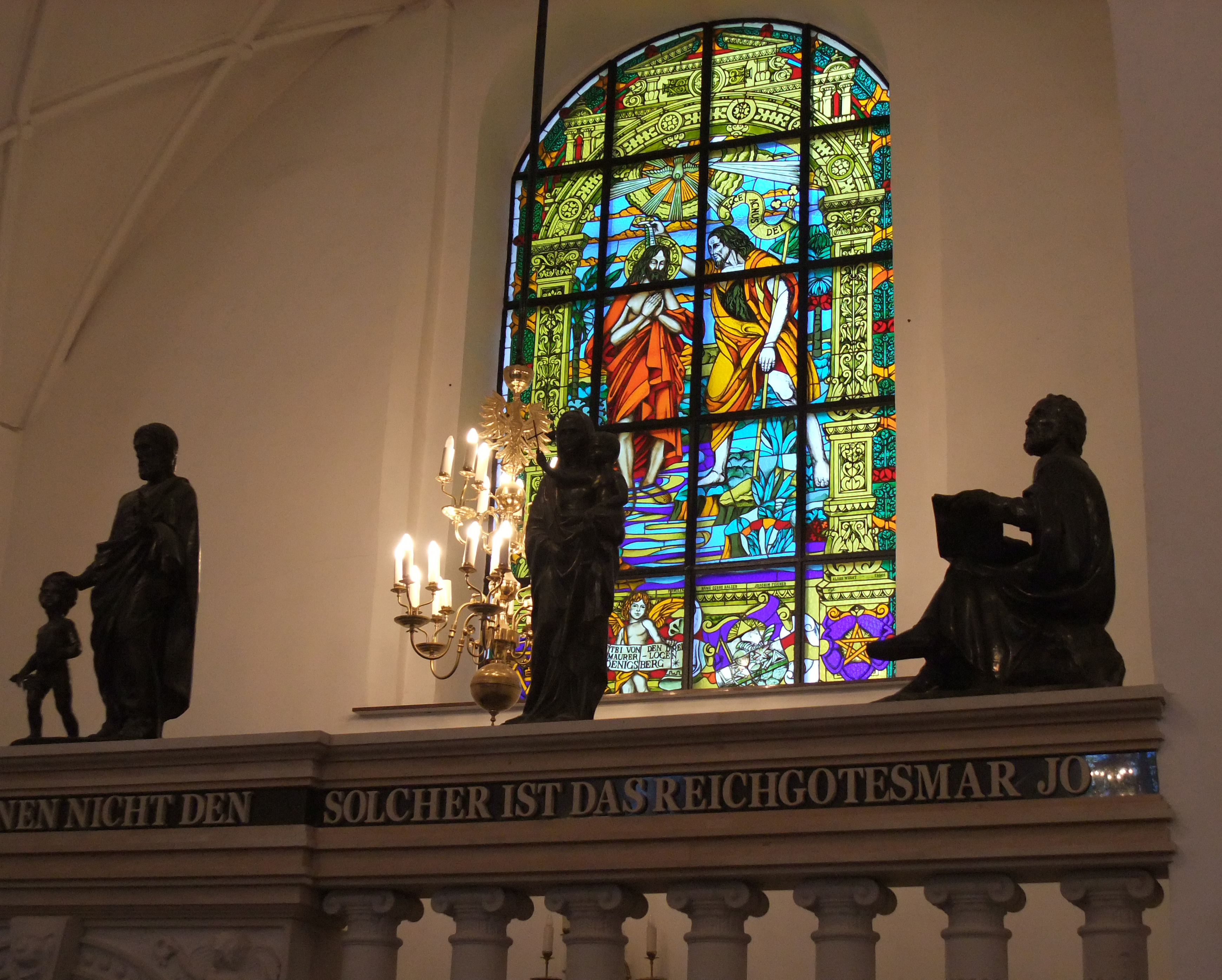 Window of the Old Cathedral of Kaliningrad, Russia